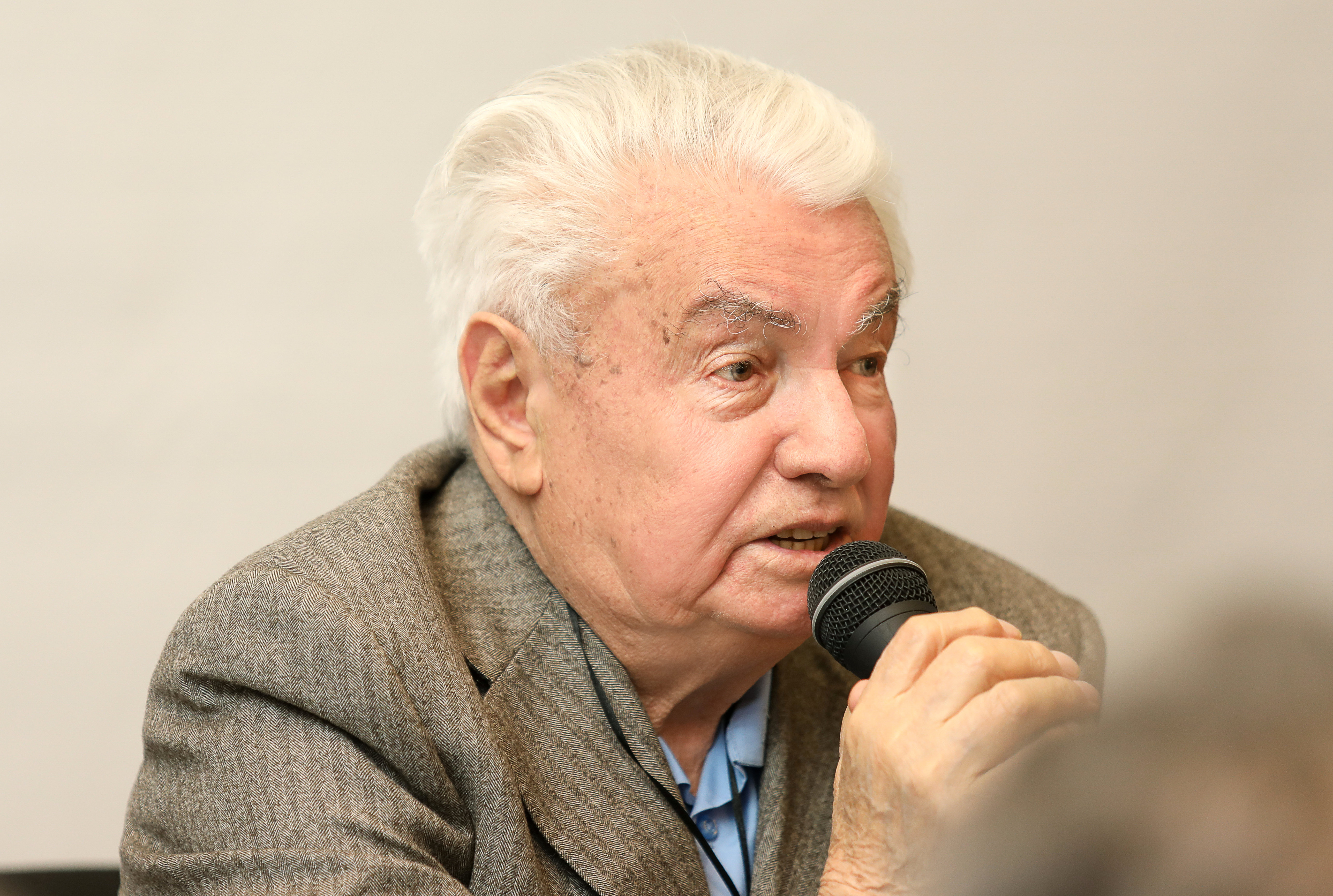 Russian writer Vladimir Voinovich.